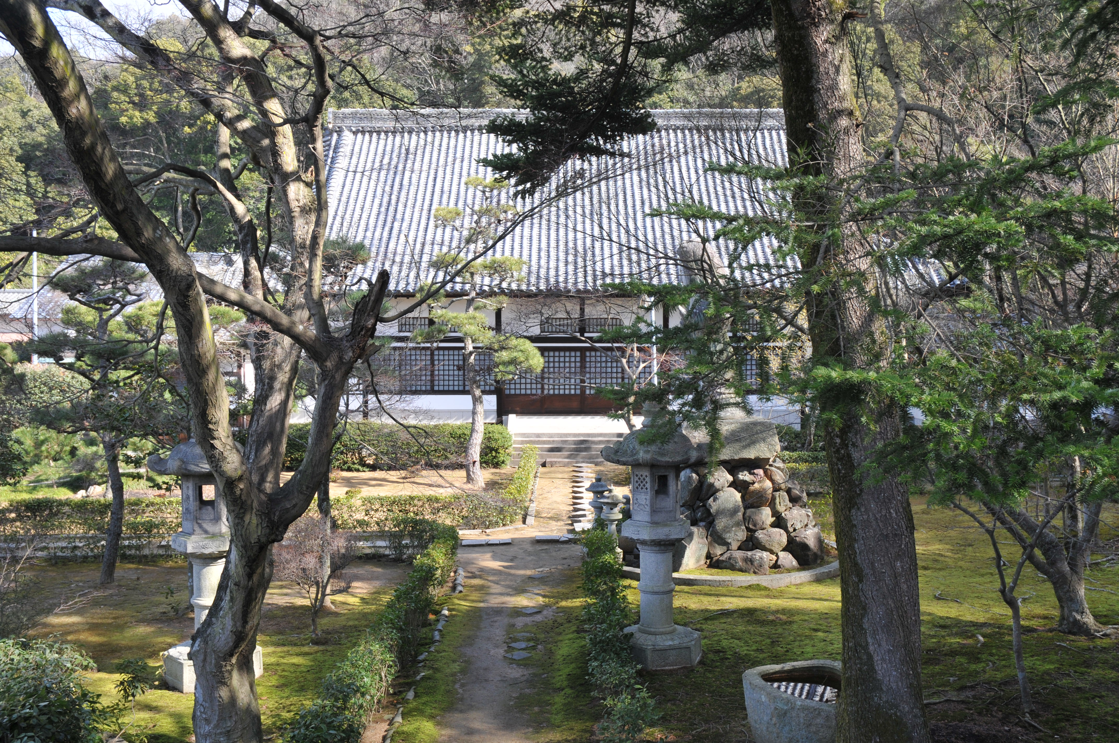 Shorinji precincts and main temple